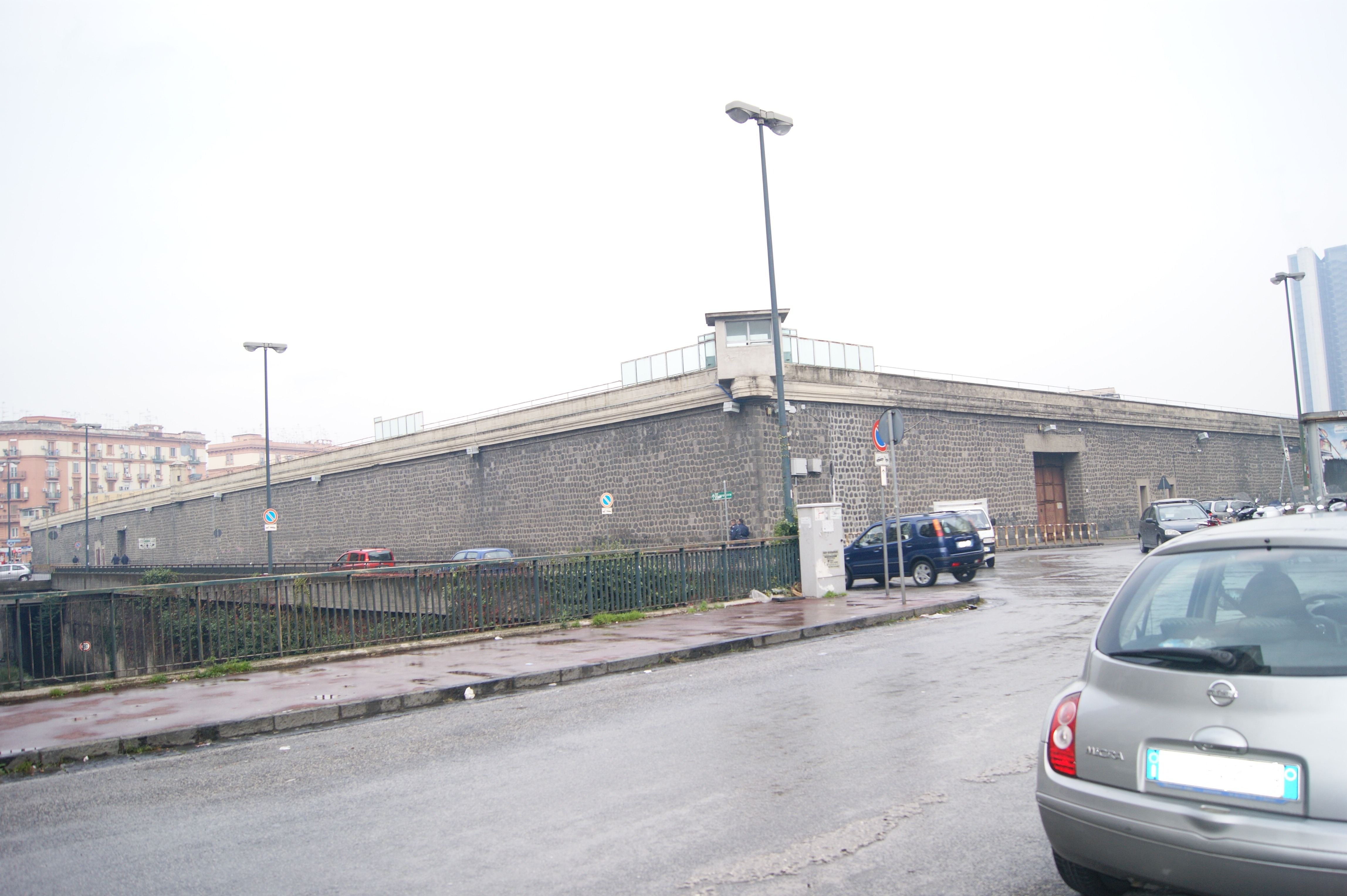 The prison of Poggioreale (Naples) viewed from one side.